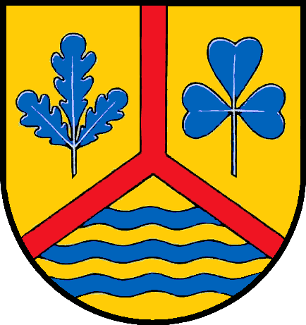 Coat of arms of Ladelund Blasonierung: In Gold ein roter Göpel, begleitet rechts von einem dreiblättrigen blauen Eichenzweig, links von einem blauen Kleeblatt, unten von drei durchgehenden blauen Wellenfäden.